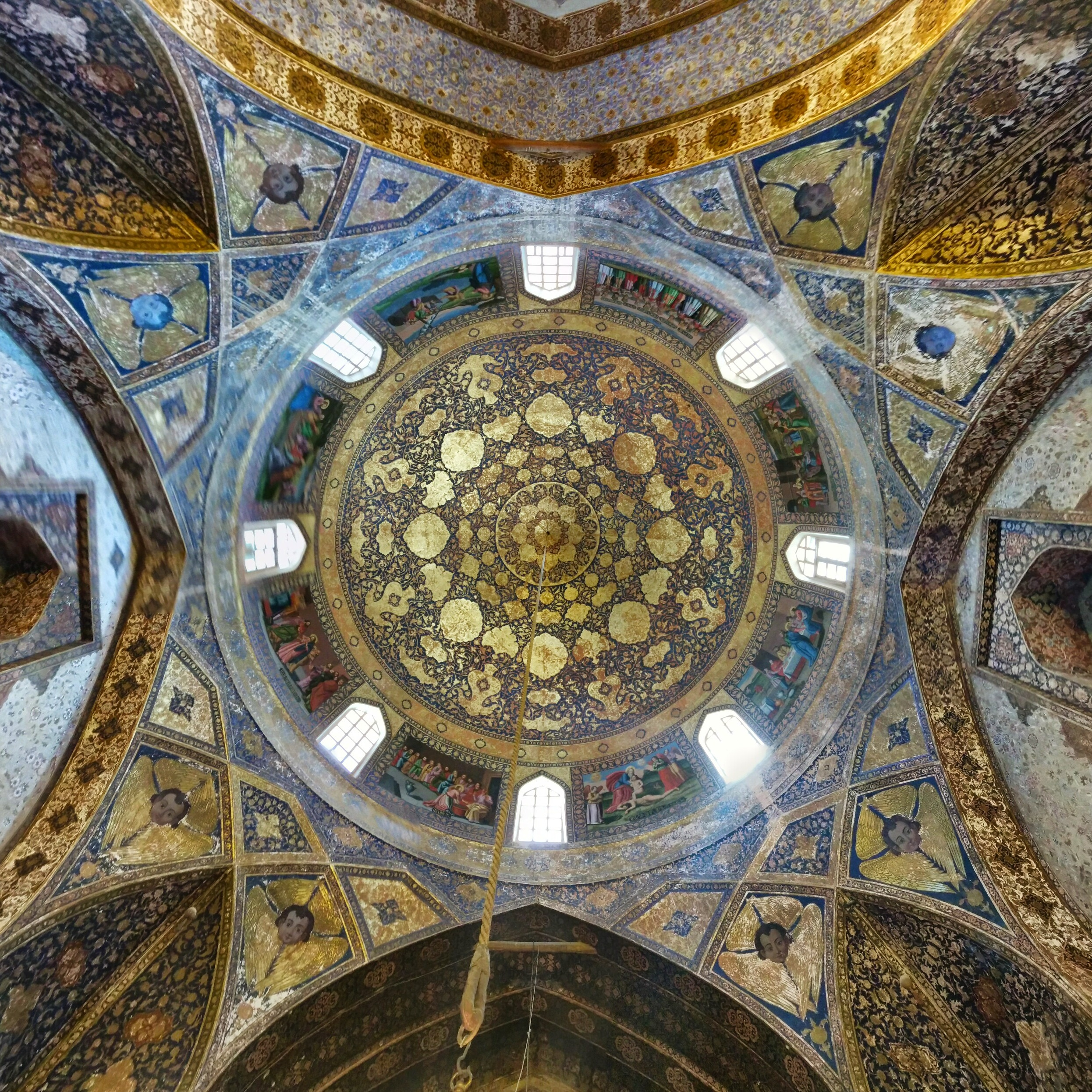 The Bedkhem Church(Other names: Bedghehem church or Beyt Lahm church or Bethlehem church) completed in 1627 AD.